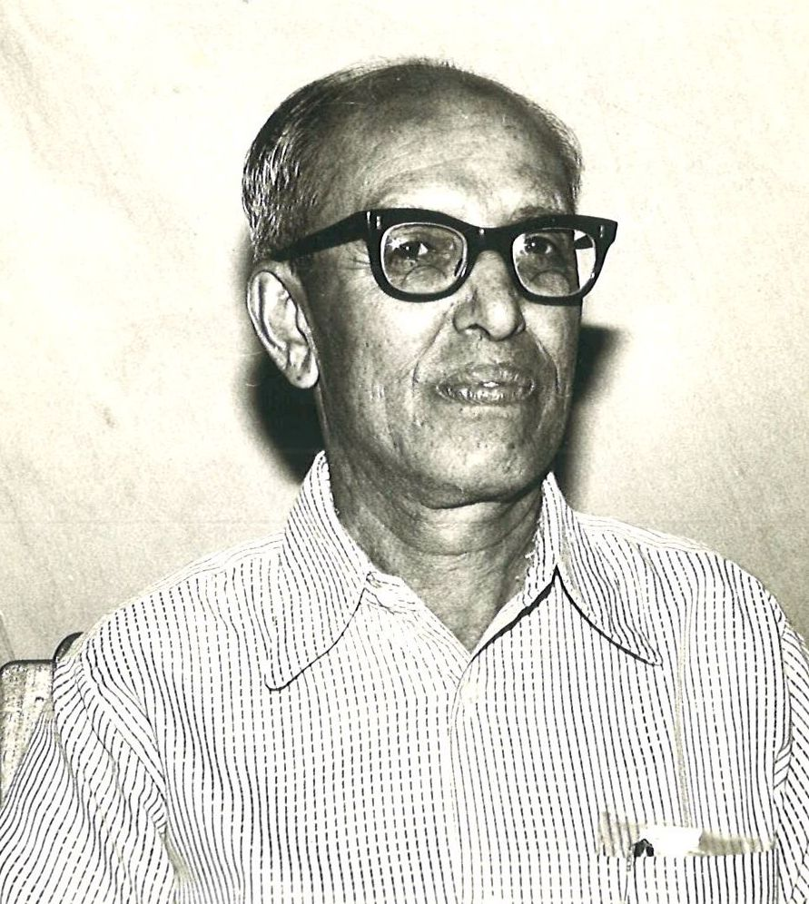 Portrait Photograph of H. S. Krishnaswamy Iyengar (1970) - Mysore [Black and White Photograph]